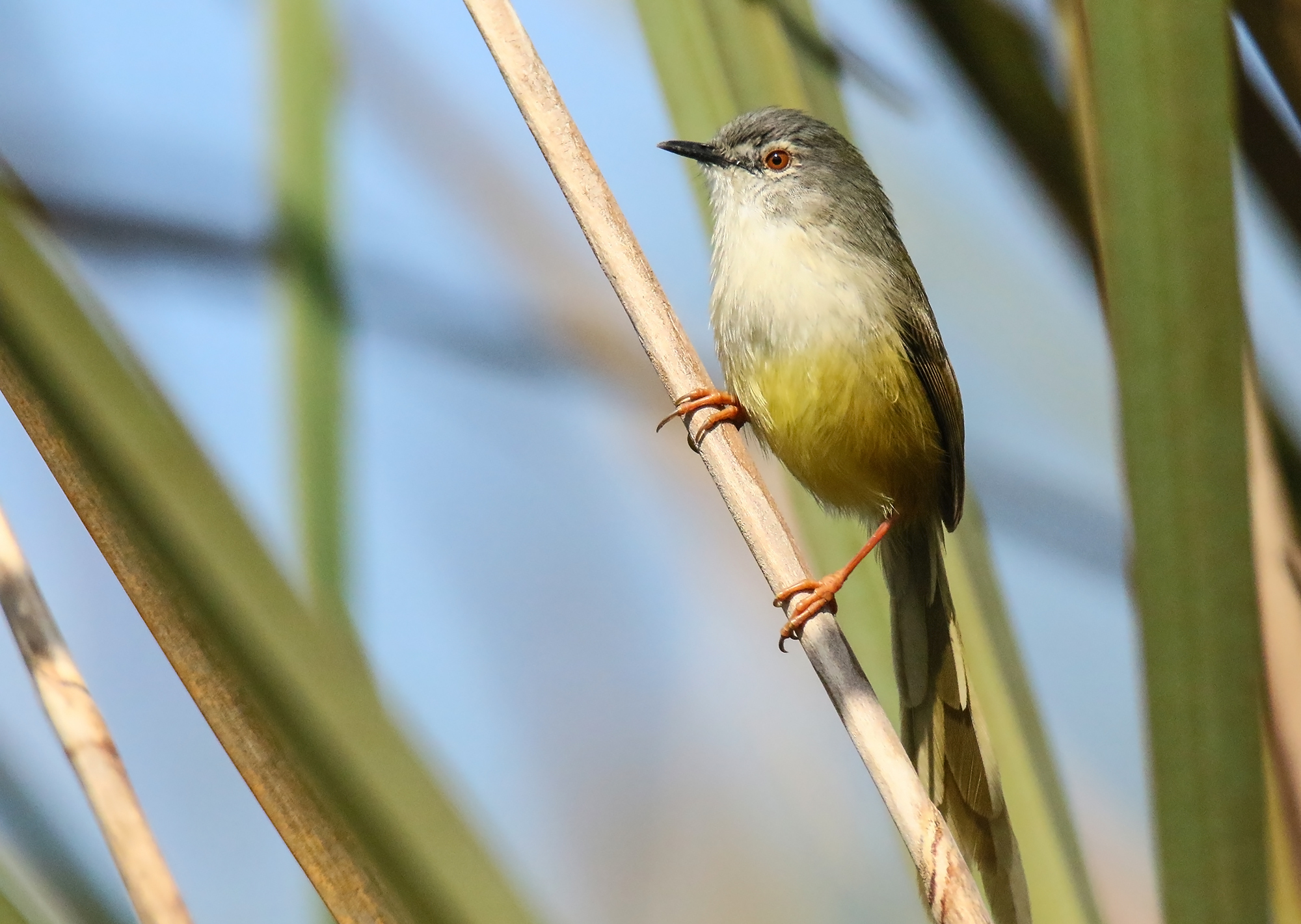 Yellow-bellied Prinia (Prinia flaviventris) captured at Marala, Sialkot, Punjab, Pakistan with Canon EOS 7D Mark II